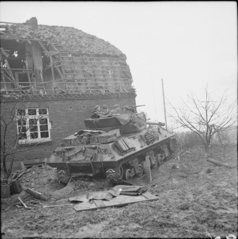 The British Army in North-west Europe 1944-45 An Achilles 17-pdr tank destroyer uses a building as cover in Hassum, near Goch, 20 February 1945.